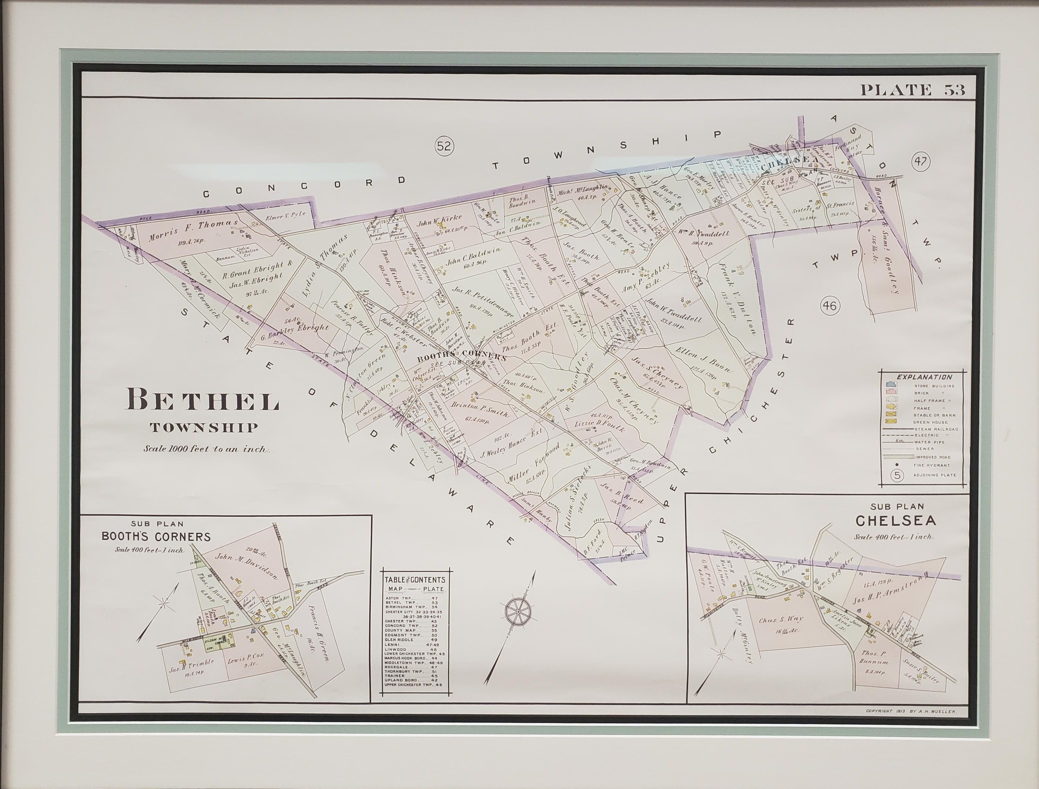 Bethel Township Map by A.M. Mueller in 1913